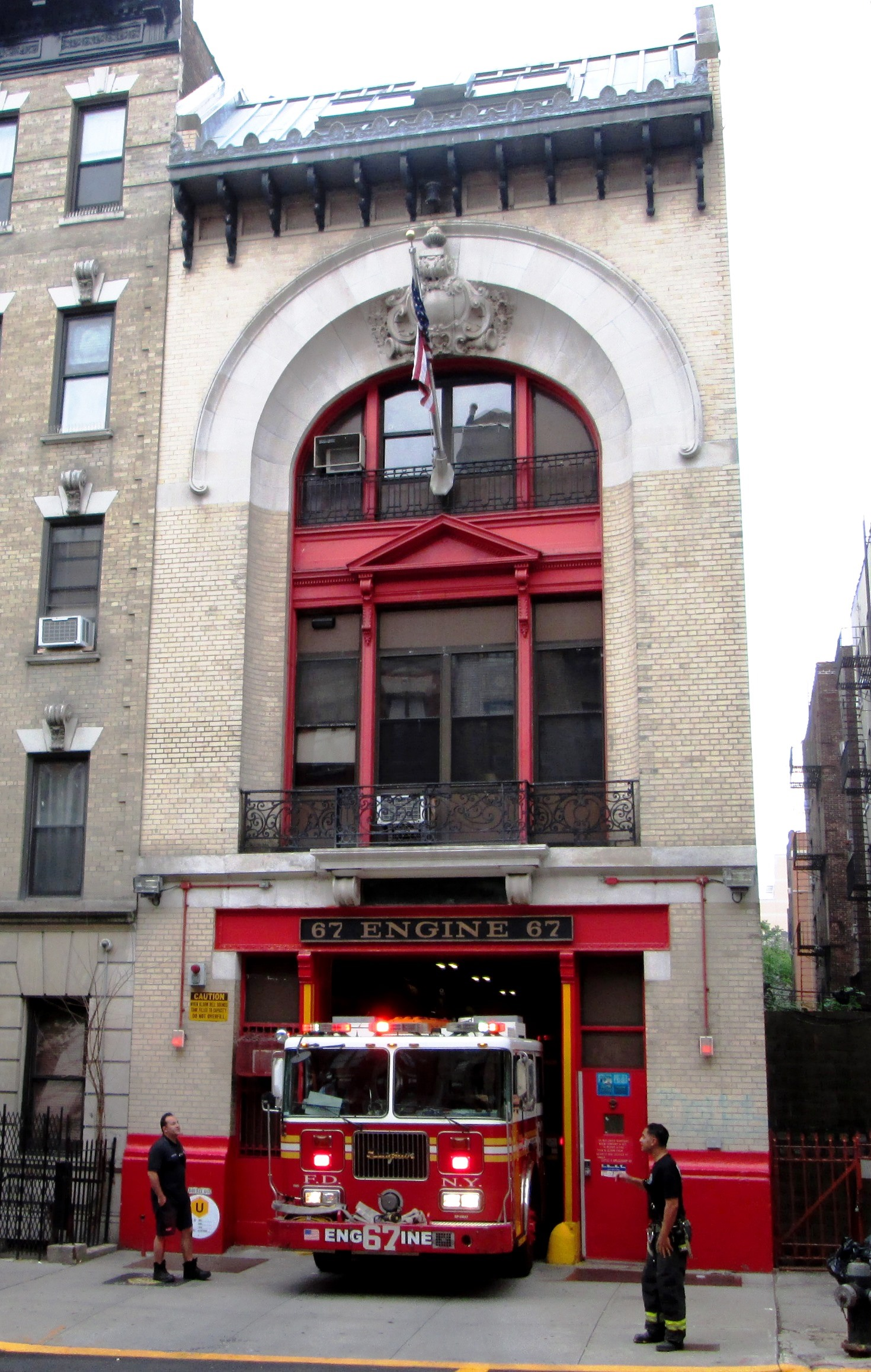 Engine Company 67 of the Fire Department of New York City, located at 514 West 170th Street between Audubon and Amsterdam Avenues in the Washington Heights neighborhood of Manhattan, New York City, was built in 1897-98 and was designed by Ernest Flagg and Walter B. Chambers in the Beaux-Arts style. (Source: Guide to NYC Landmarks (4th ed.))